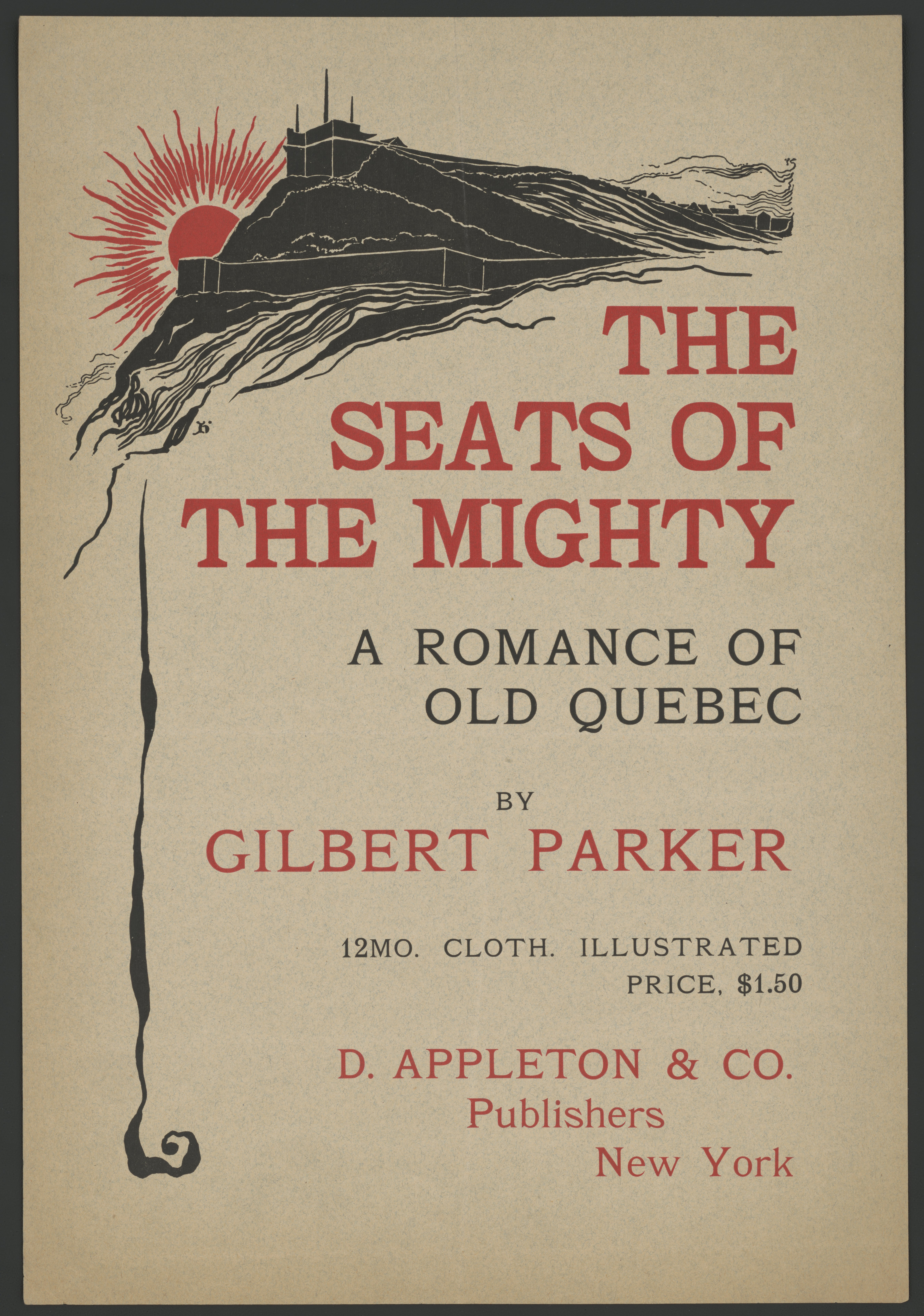 Title: The seats of the mighty, a romance of old Quebec by Gilbert Parker ... D. Appleton & Co., publishers, New York / H. Abstract/medium: 1 print : color ; 48 x 33 cm (poster format)